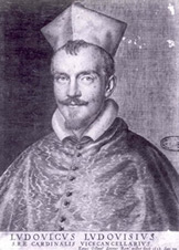 Etching of cardinal Ludovico Ludovisi, vice-chancellor of the Holy Roman Church (1623-1632)